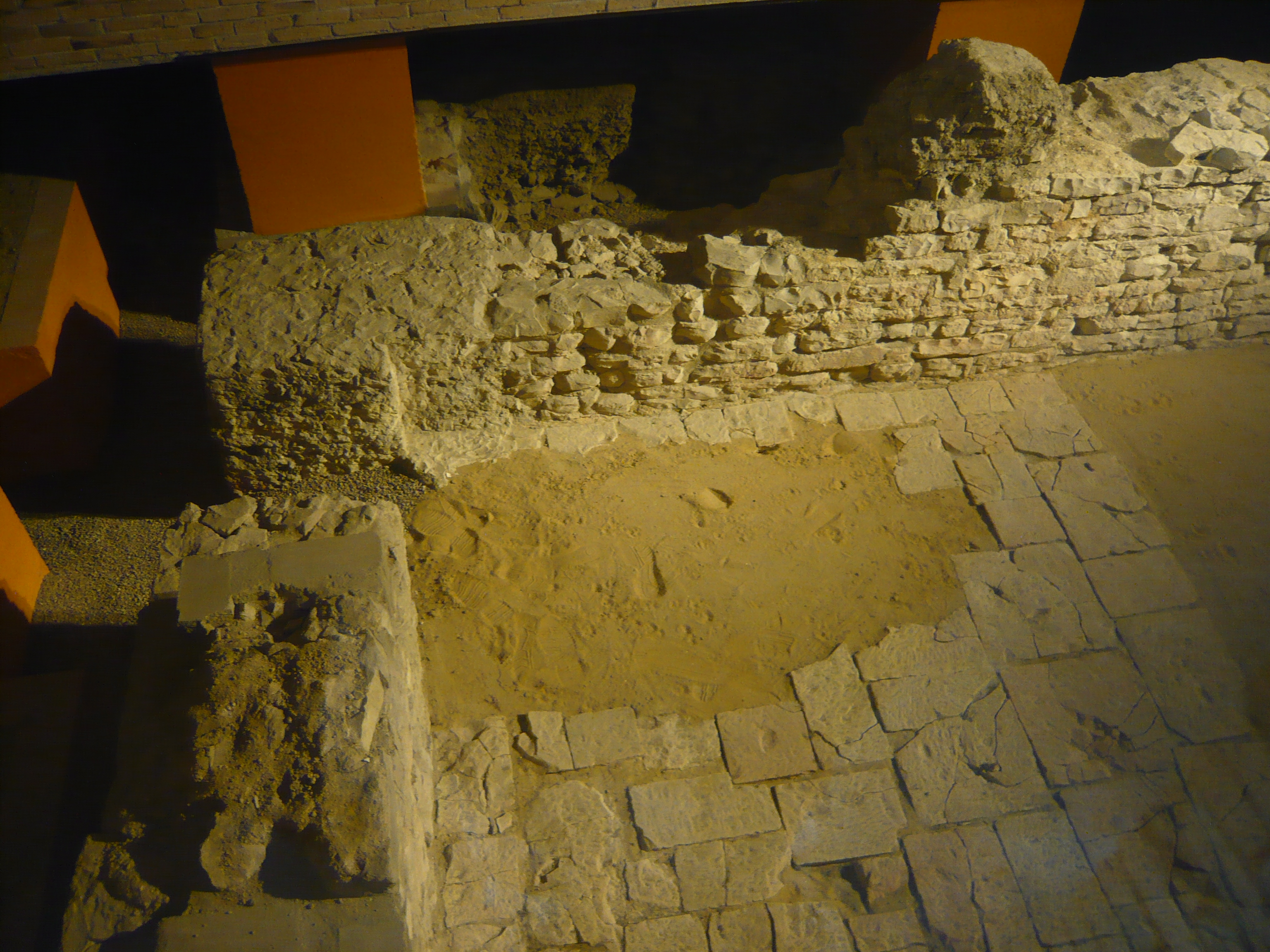 Ruins of the Church of the Virgin Mary in the Prague Castle, as photographed through the public viewing window.